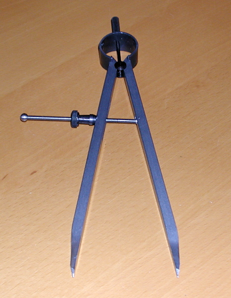 caliper: Spring divider With the screw and spring you can make a fine and stable adjustment.